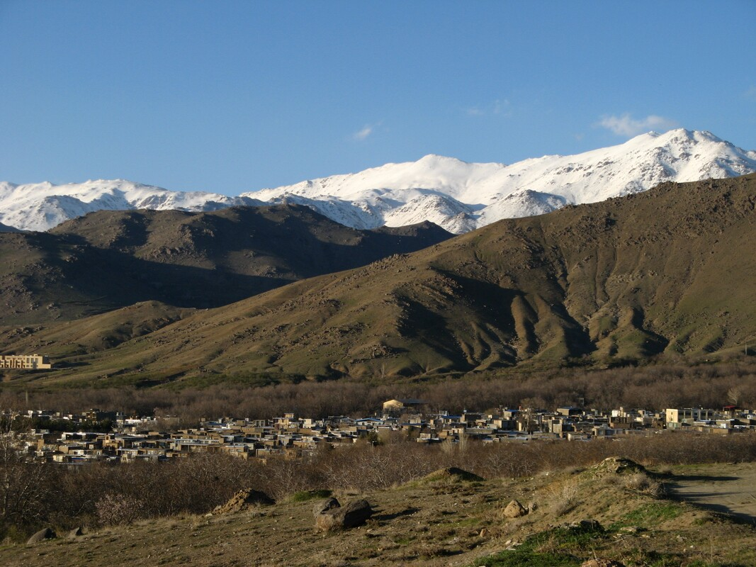 Tuyserkan valley and Tuyserkan town (Hamadan province, Iran)